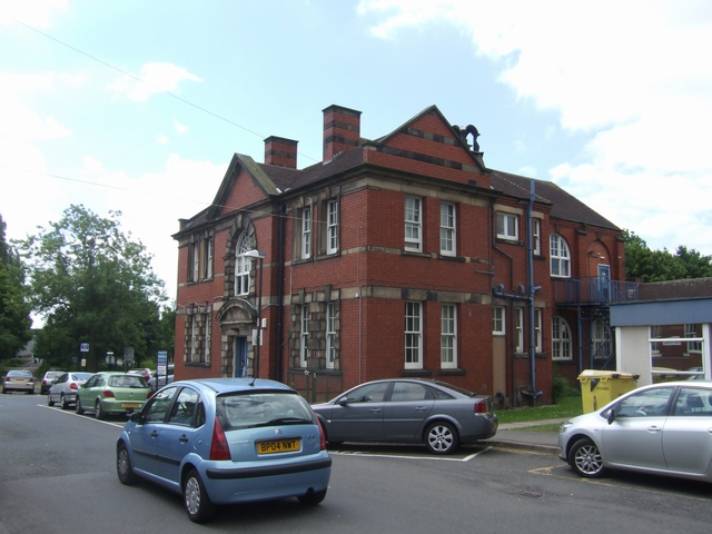 New Cross Hospital - Workhouse Board Offices New Cross Hospital started life at the turn of the 20th century as a workhouse. A good guide to the history of the site is given in A number of the original buildings remain throughout the complex including the nurses home(Hollybush House), married quarters and the entrance lodge.